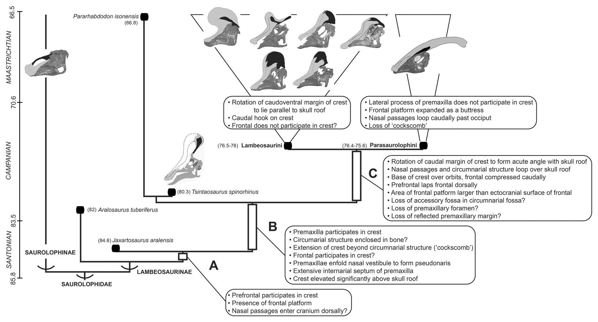 Simplified time-calibrated phylogram of Lambeosaurinae. Topology based on [14], with characters discussed in text optimized. In each hadrosaurid skull, light grey indicates premaxilla and black denotes nasal. The literature sources for each of the taxon’s datings are as follows: Aralosaurus tuberiferus [60,61], Jaxartosaurus aralensis [62], Pararhabdodon isonensis [21], Tsintaosaurus spinorhinus [33], and Lambeosaurini (oldest recorded age being that of Corythosaurus casuarius) and Parasaurolophini (oldest recorded age being that of Parasaurolophus walkeri) [63]. Geochronological ages are from [64].